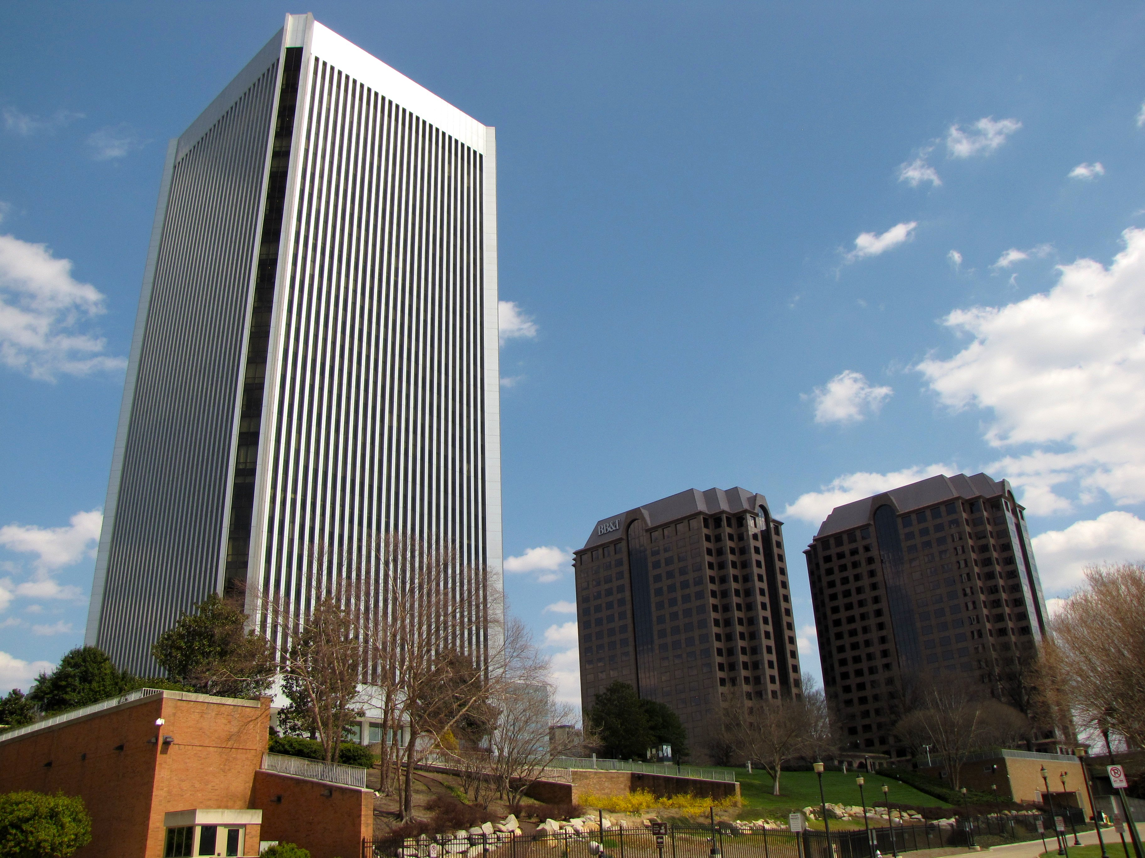 The Federal Reserve building and Riverfront Plaza, as seen from Tredegar Street.